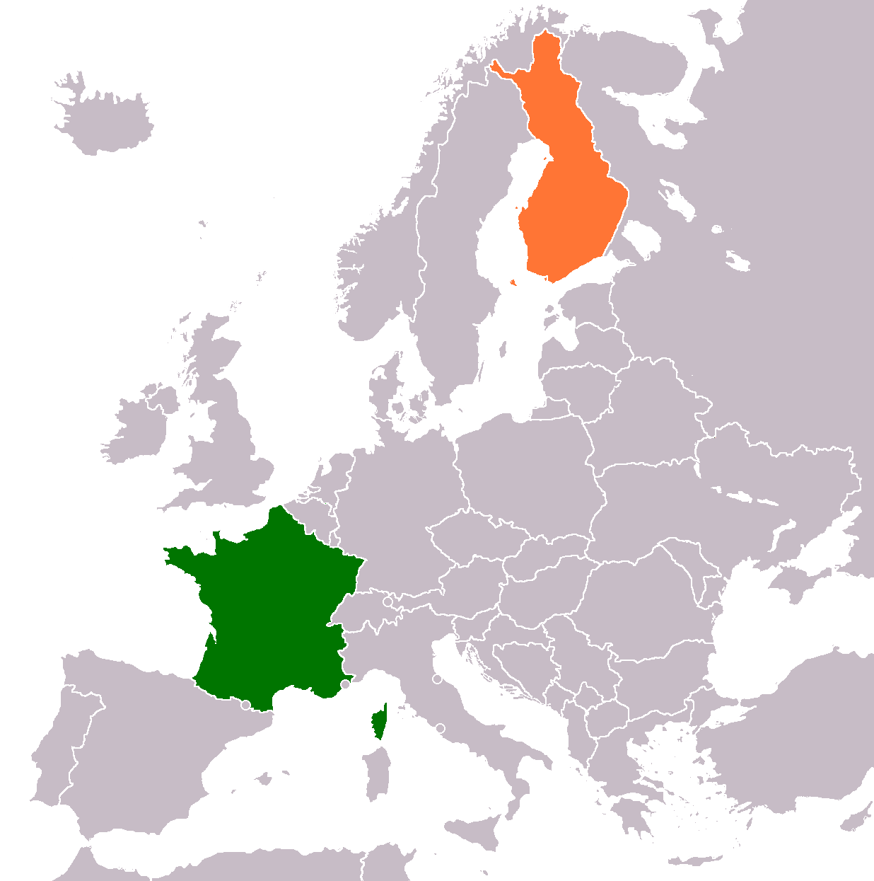 Map showing Finland and France